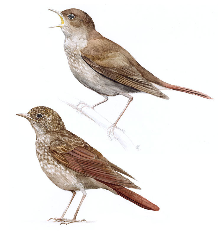 Drawings of the Thrush Nightingale, a singing male is above and a juvenile in below.